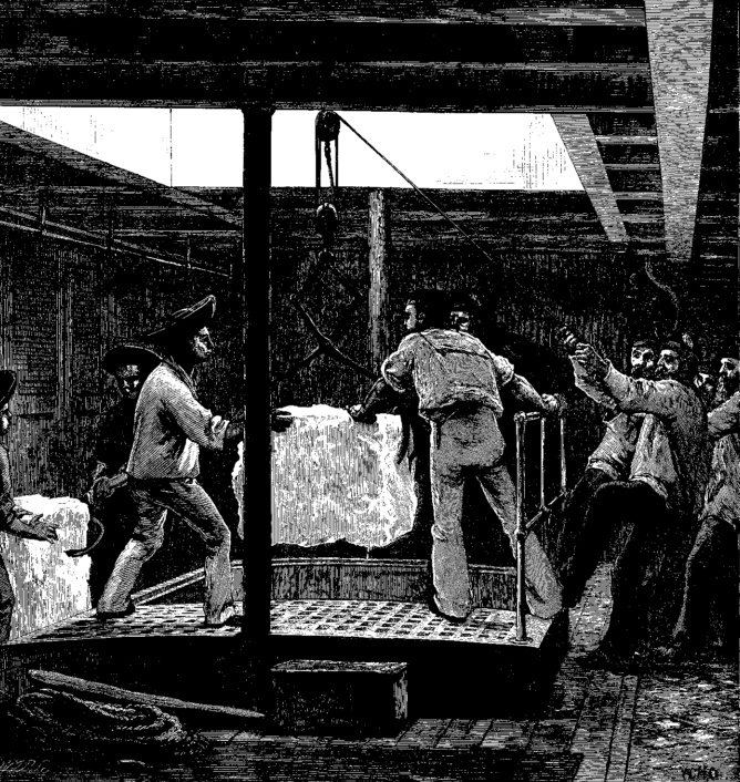 Taking on ice on HMS Serapis, 1875